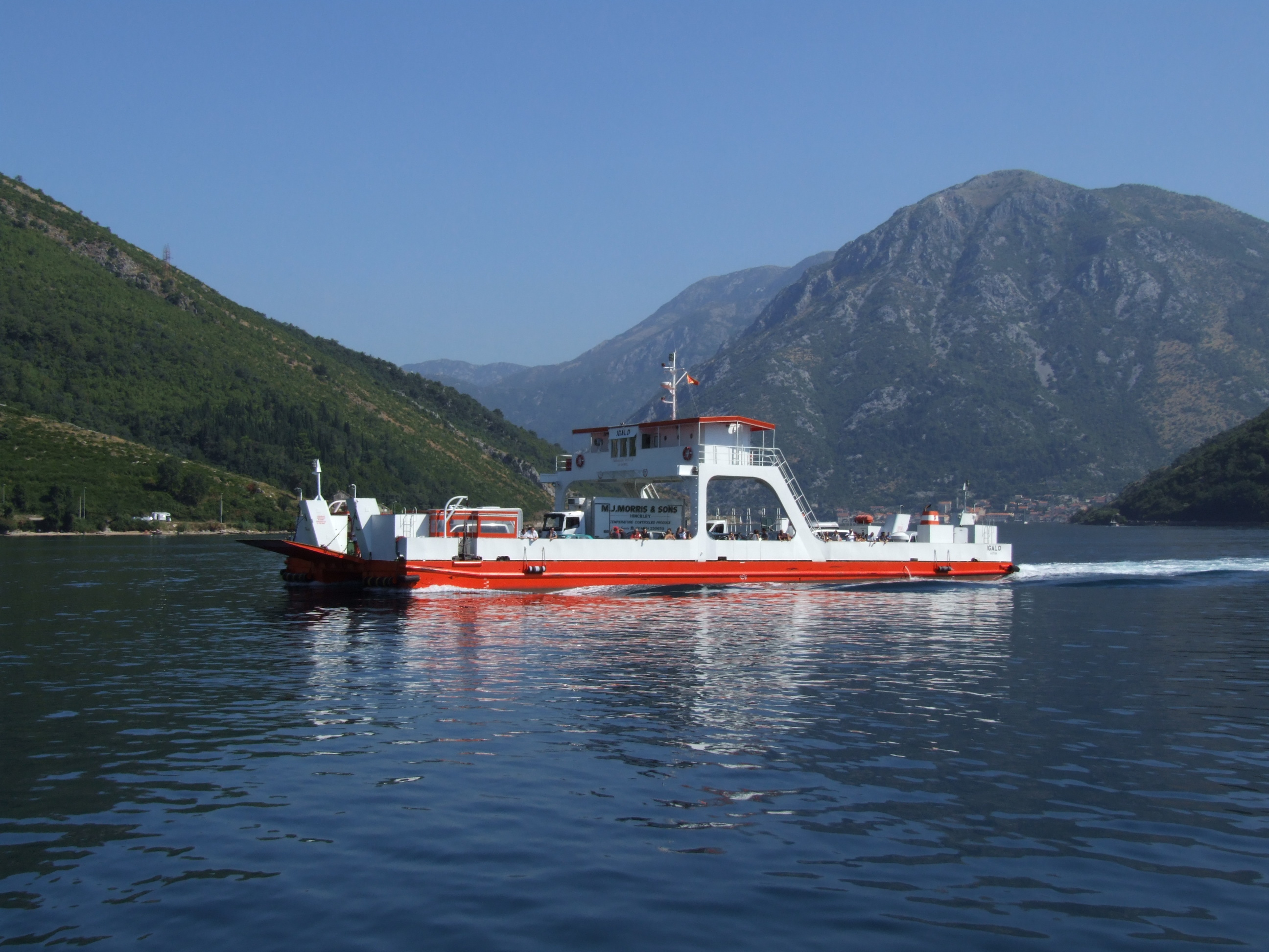 Boka Kotorska (Bay of Kotor), Montenegro. Ferry to Kamenari Ślůnski: Boka Kotorska, Czorno Gůra. Fera do wśi Kamenari